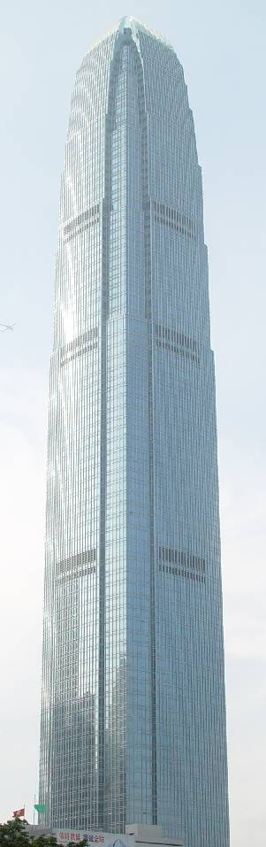 IFC2, Hong Kong This image has been taken by myself with my own camera. This image is in the public domain.